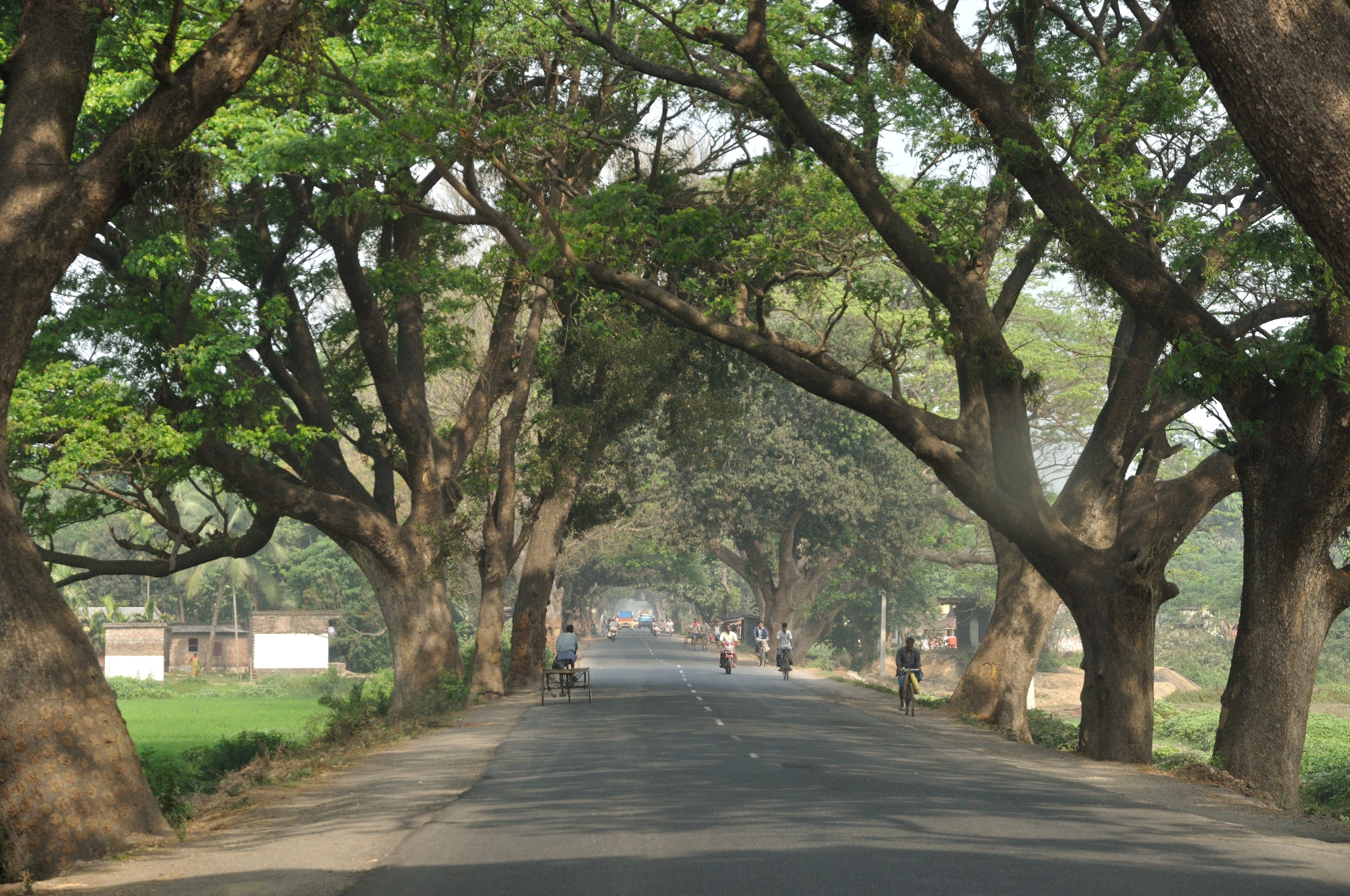 Photographed in West Bengal, India.